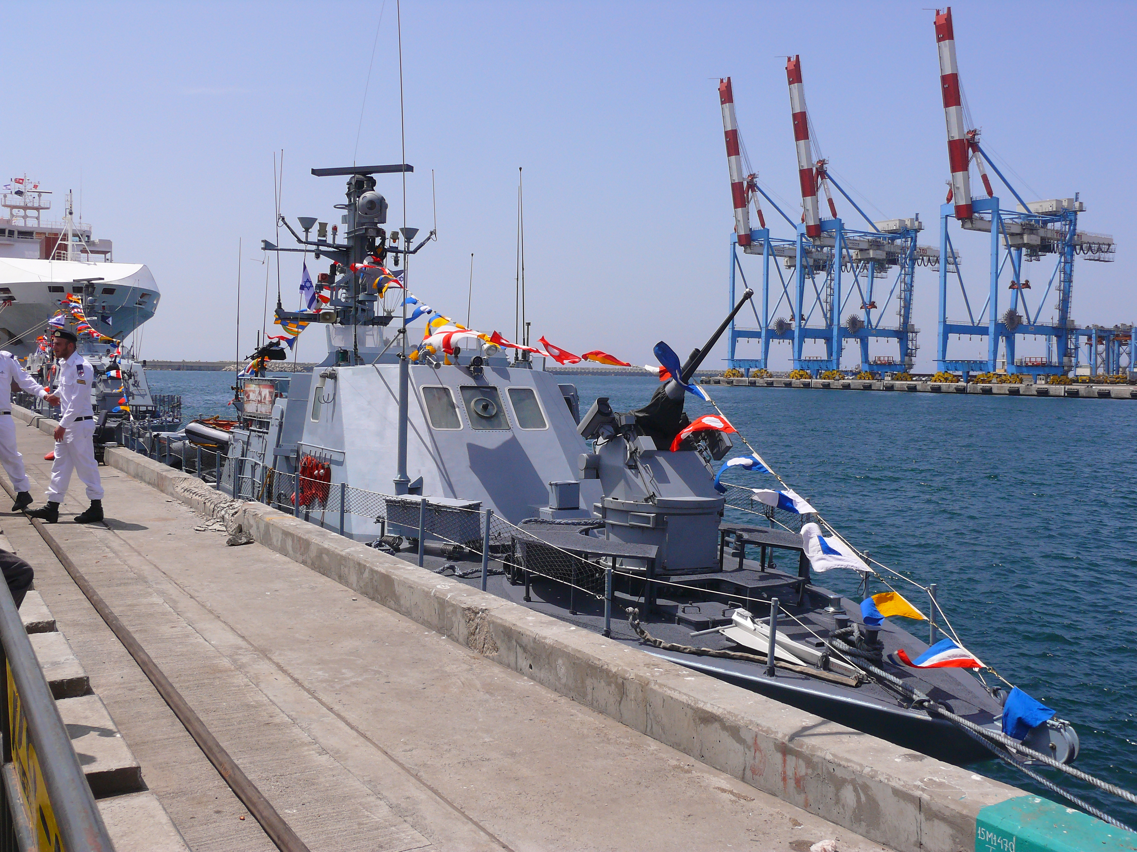 Shaldag class patrol boat